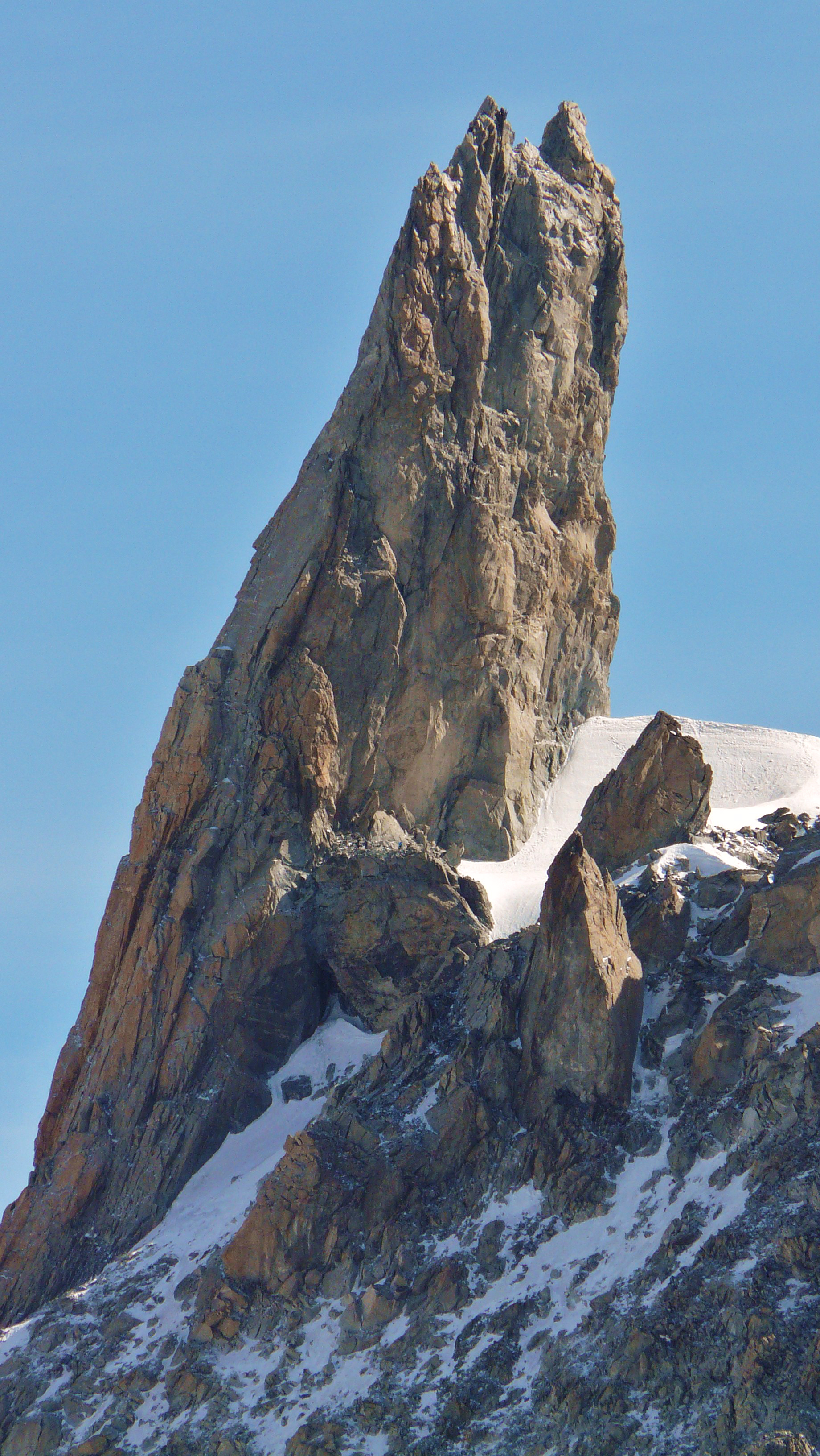 Dente del Gigante or Dent du Géant (4,013 m) as seen from Punta Helbronner (3,462 m) in 2009 July.